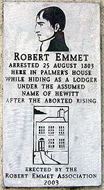 Photograph of plaque to Robert Emmet, located on Harold's Cross Road, Dublin, Ireland.